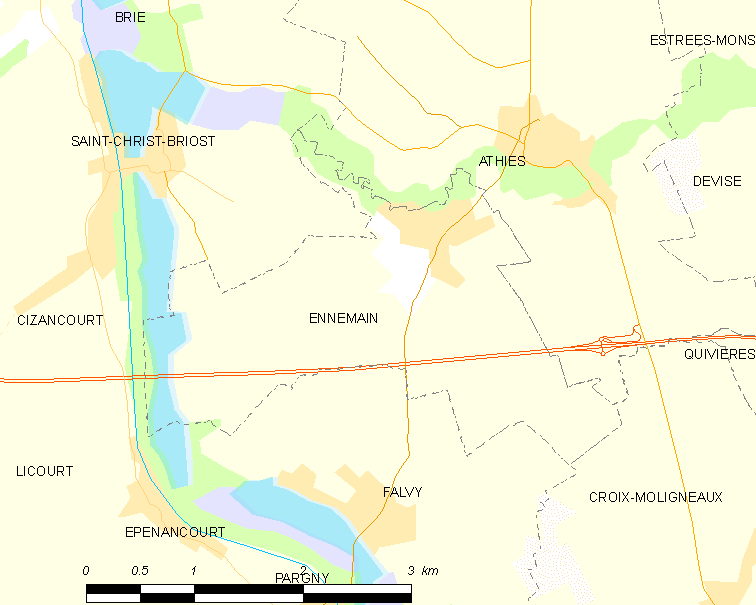 Map of French municipality Ennemain